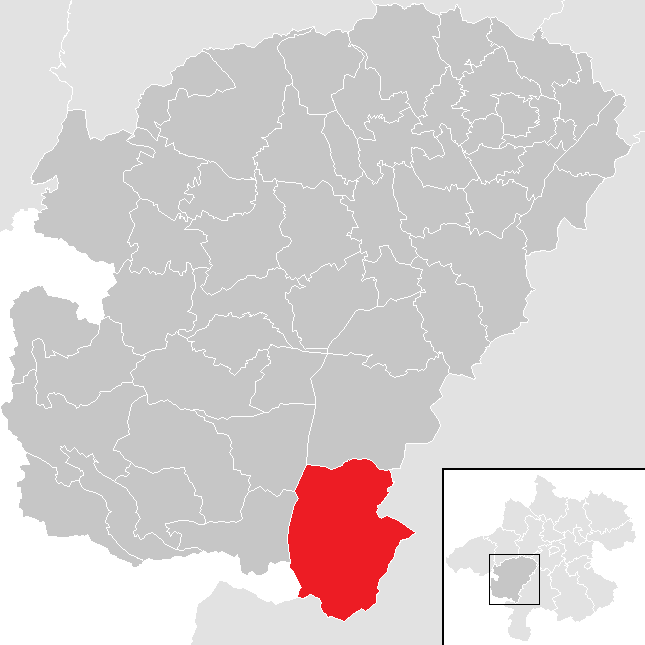 District Vöcklabruck